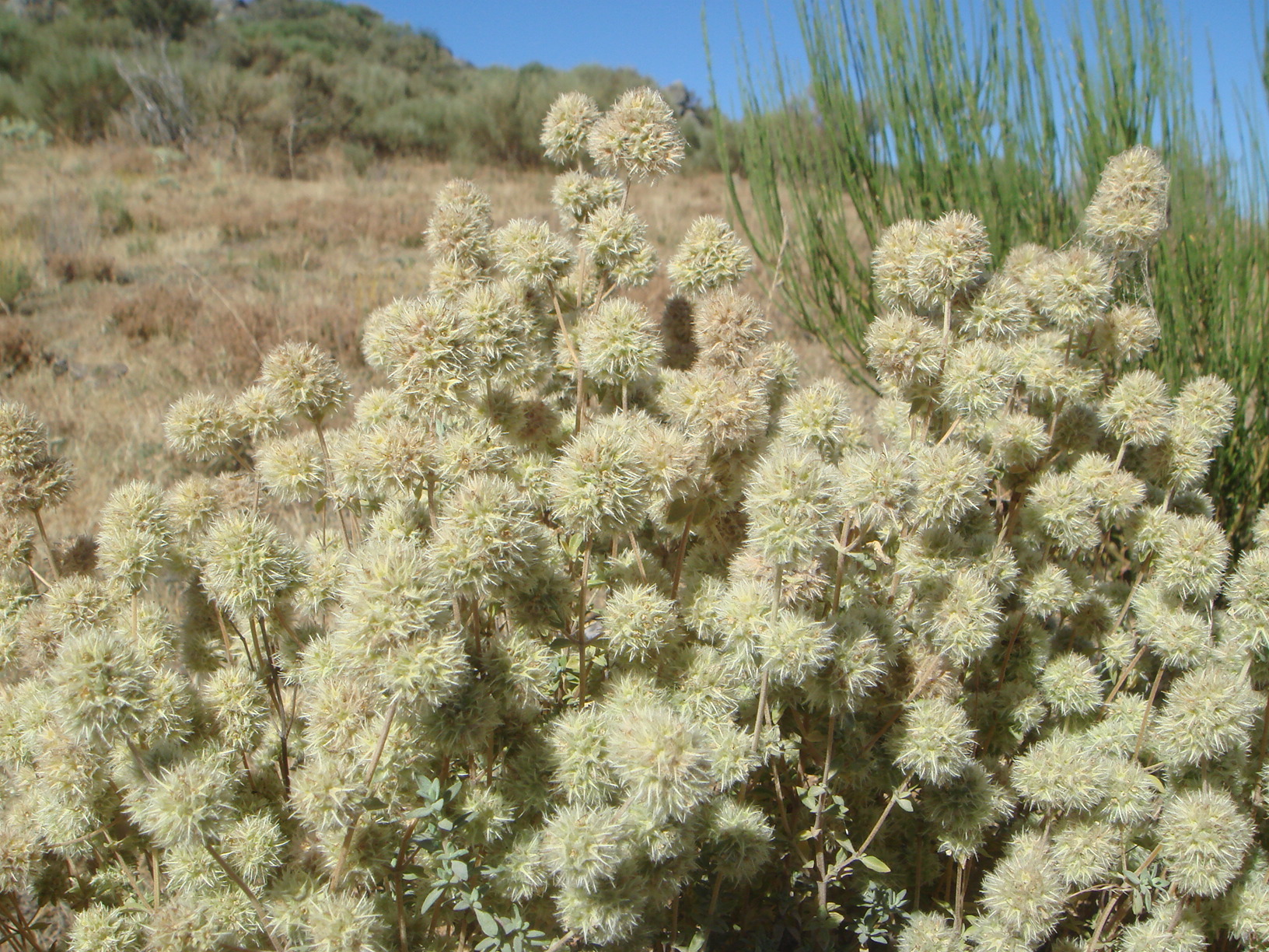 Sierra de Ávila, Spain.